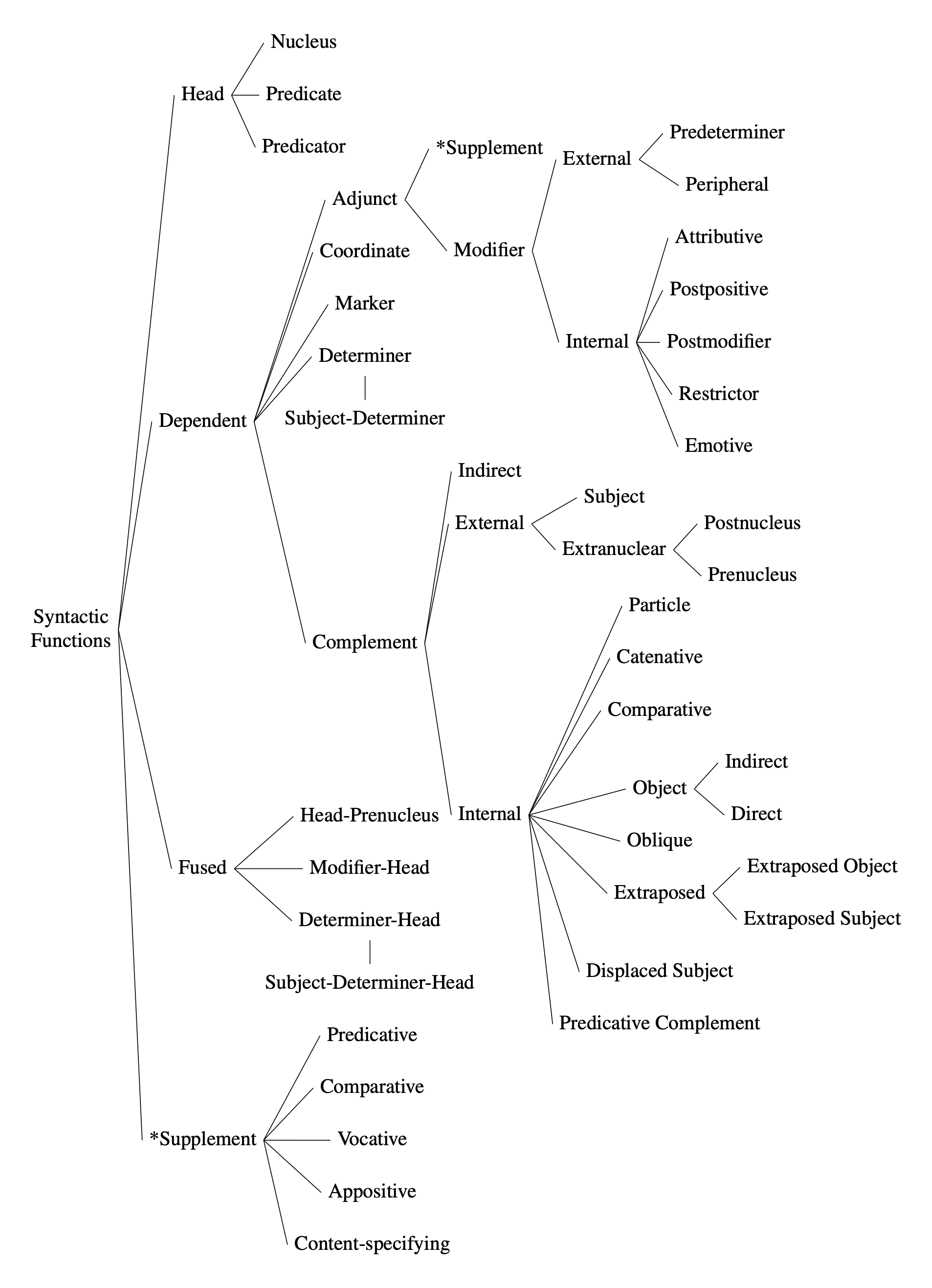 A visual depiction of the various grammatical functions in English under the analysis adopted by the Cambridge Grammar of the English Language.